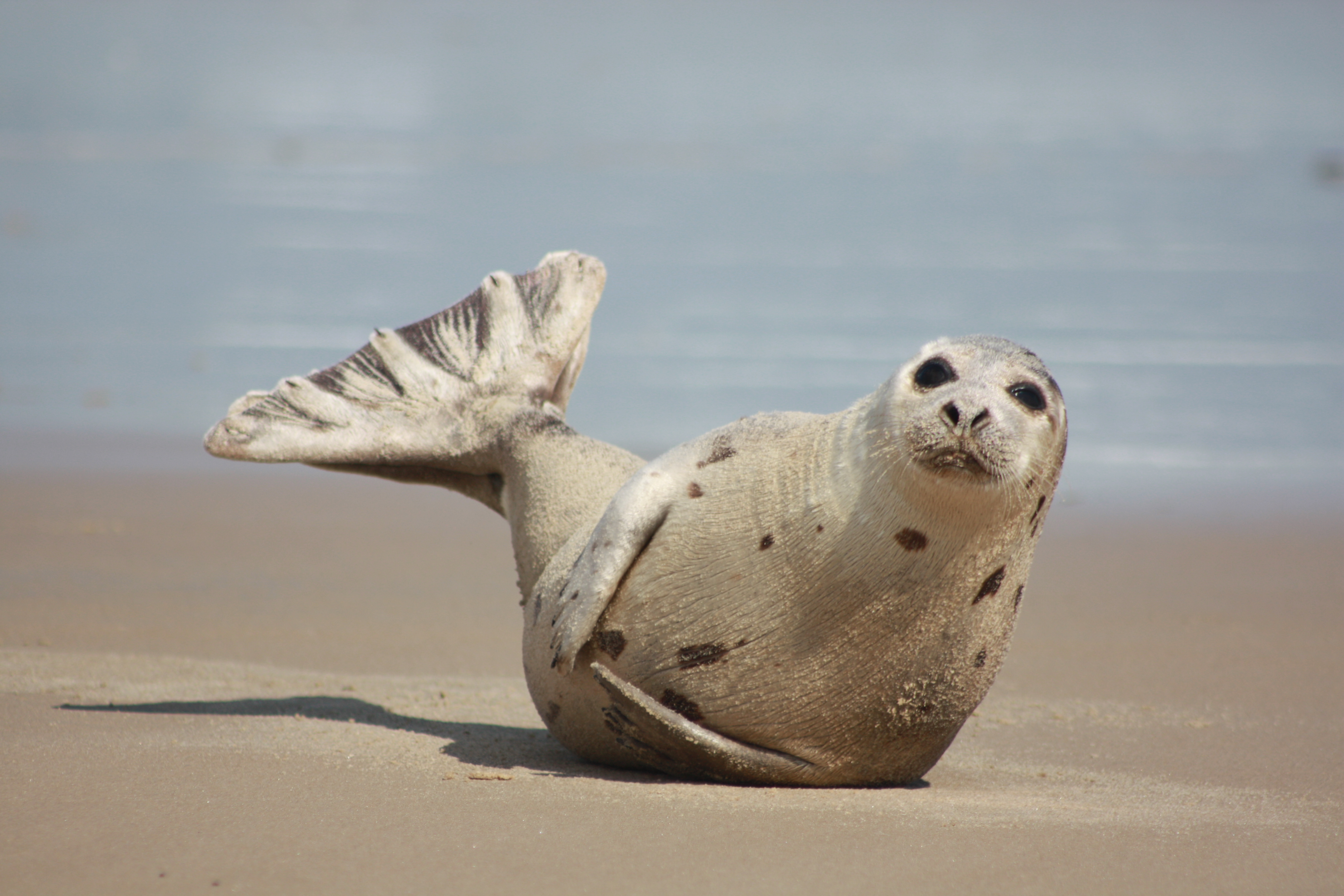 False Cape State Park March 2013 rbm eNews 04/05/13